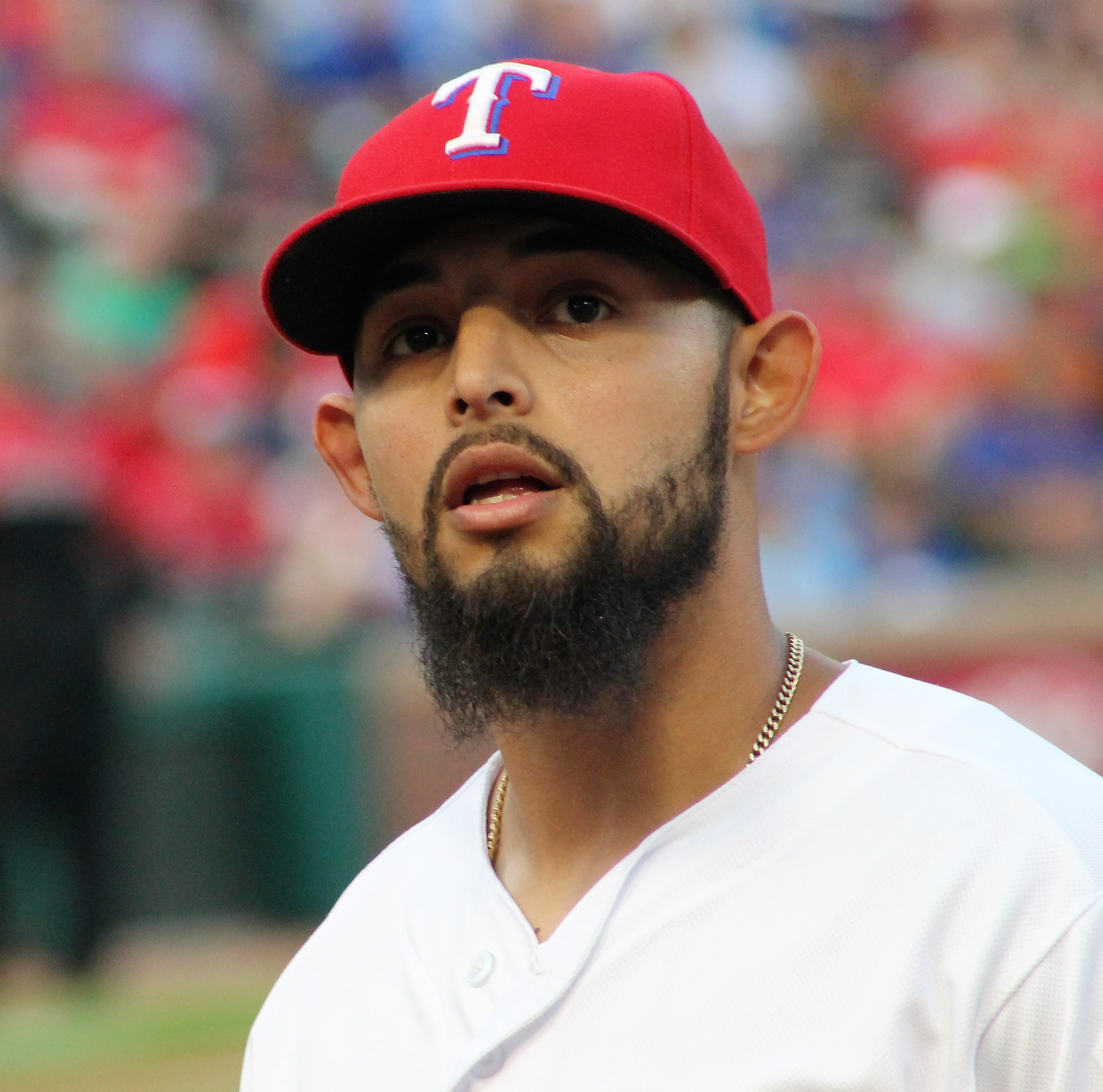 Professional baseball player Rougned Odor during a game in Texas in May 2016.